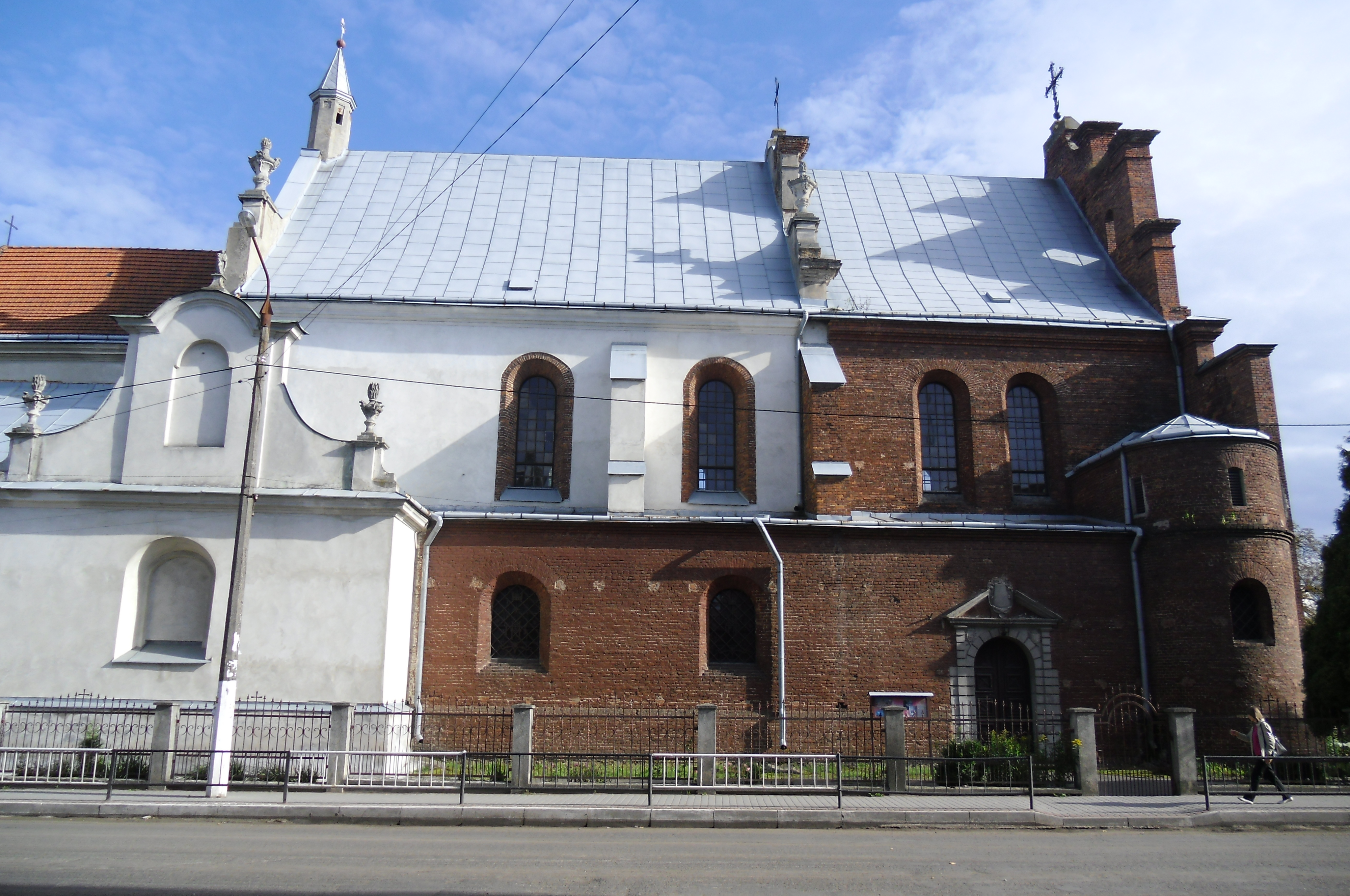 Horodok, Lviv Oblast. Roman Catholic Church the Exaltation of the Holy Cross. (partial view). The first mention comes from 1213.